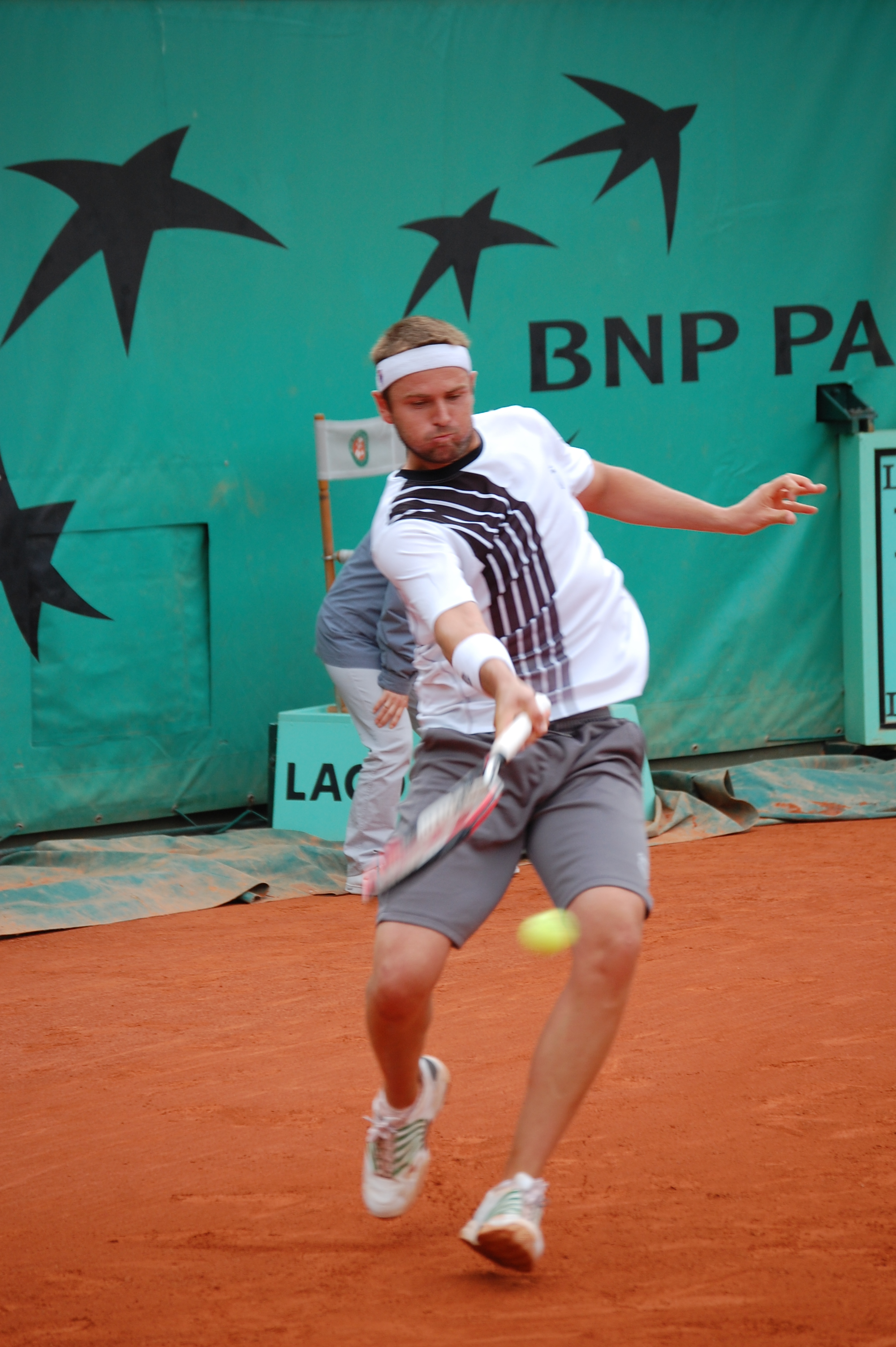 Mardy Fish playing in an exhibition match in Roland Garros 2009 French Open